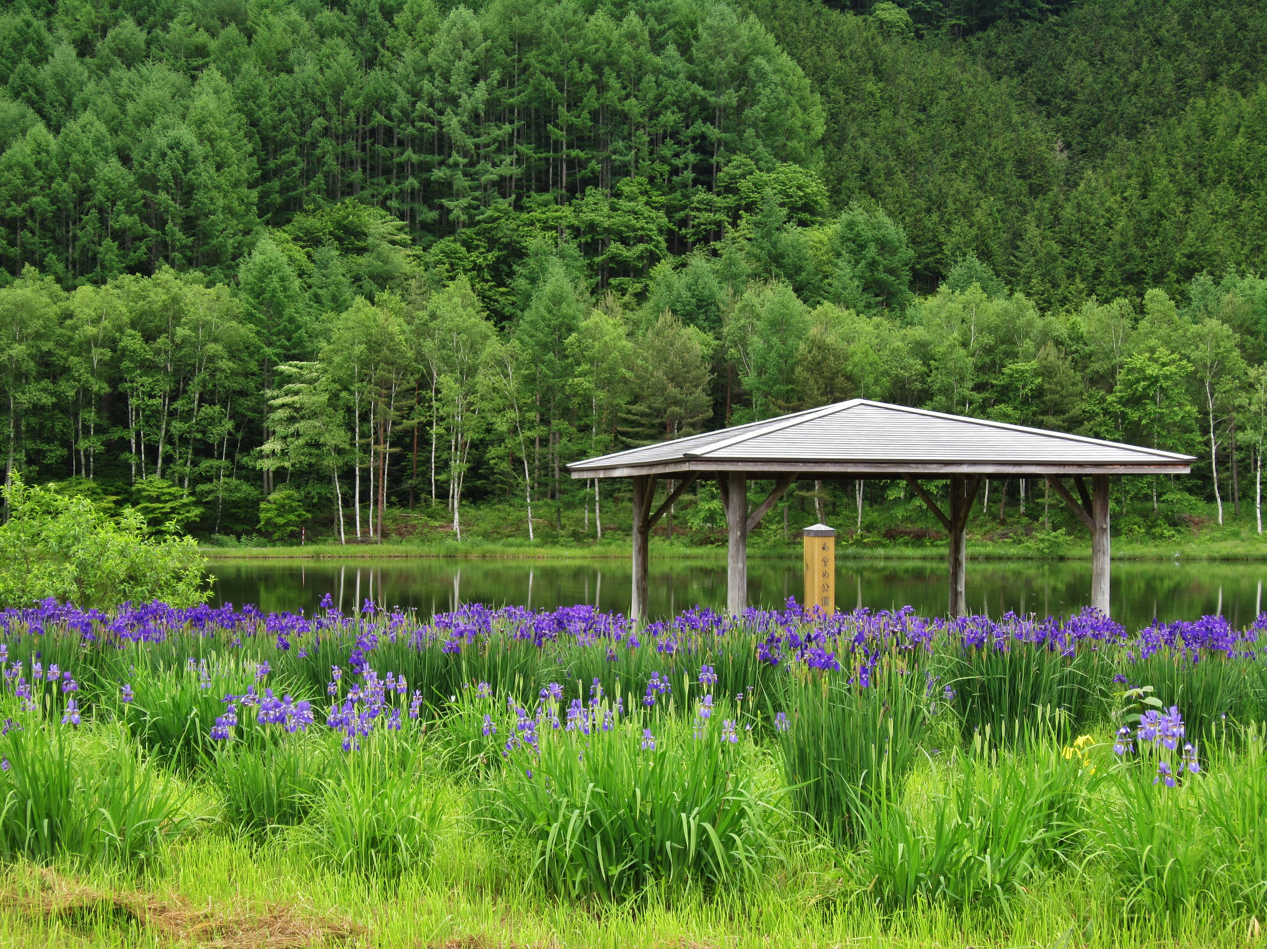 Ayame Park Pond.